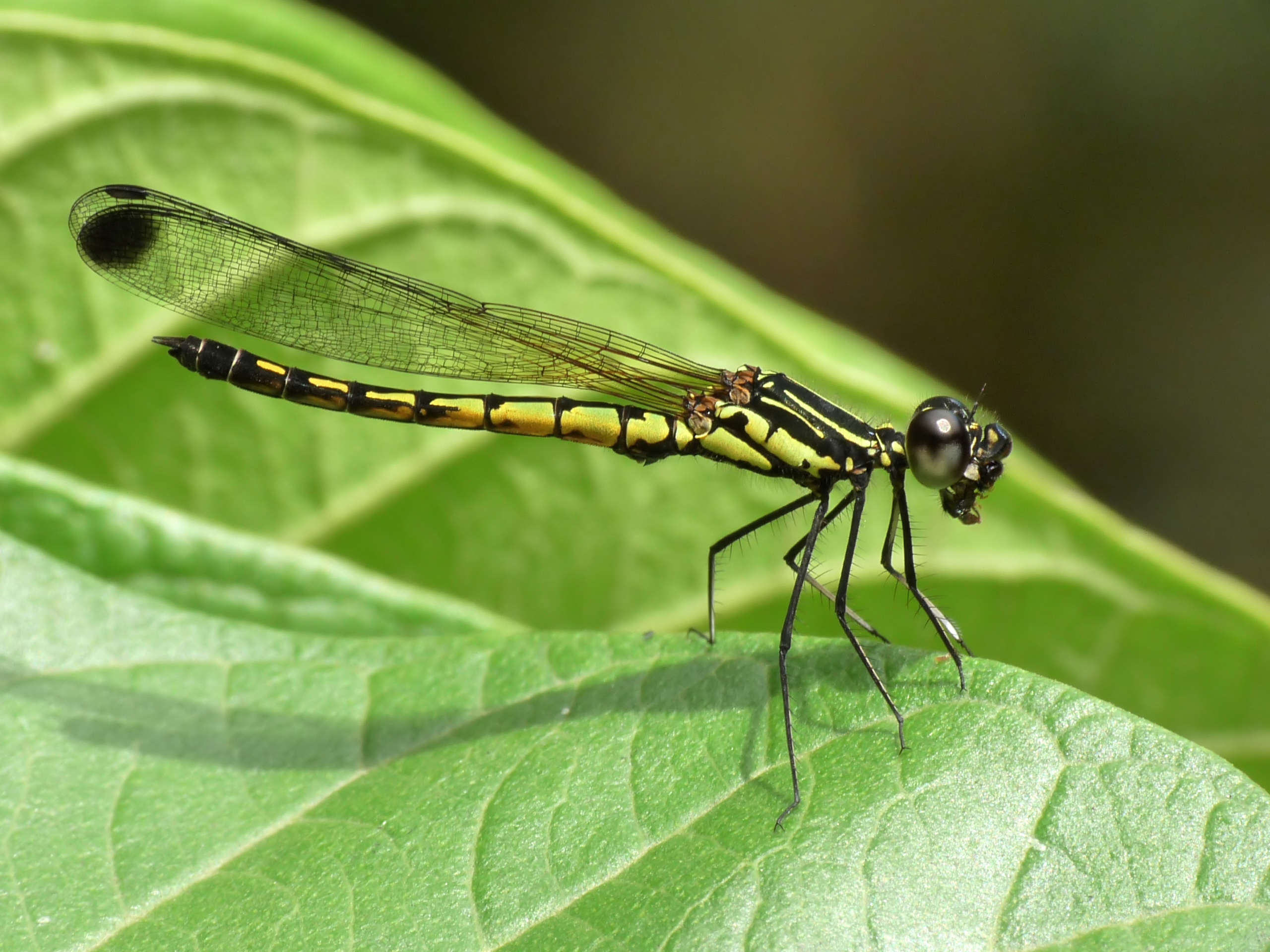 River Heliodor (Libellago lineata), male Libellago lineata, River Heliodor, Stream Heliodor, Yellow-lined Gems, is a small black and yellow damselfly with black tipped transparent wing; confined to hill streams and rivers of forested landscapes. Frequently sits in emergent water plants and overhanging bushes. Their preferred home is along the banks of rivers. The fully adult male has black and yellow markings along the thorax and abdomen. It has more black when fully matured. It also has white markings on the legs. The biggest difference though, is that it develops black marks on the tops of the wings, that make it look really distinctive. A young male is similar to the adult, but doesn't yet have the black markings on the wings and there is less black on the abdomen. The female is similar to the sub-adult male, except the abdomen is much more robust. and the markings on the abdomen are slightly different. Taken at Kadavoor, Kerala, India. Note: This is Libellago indica Fraser, 1928; now considered as a separate species.